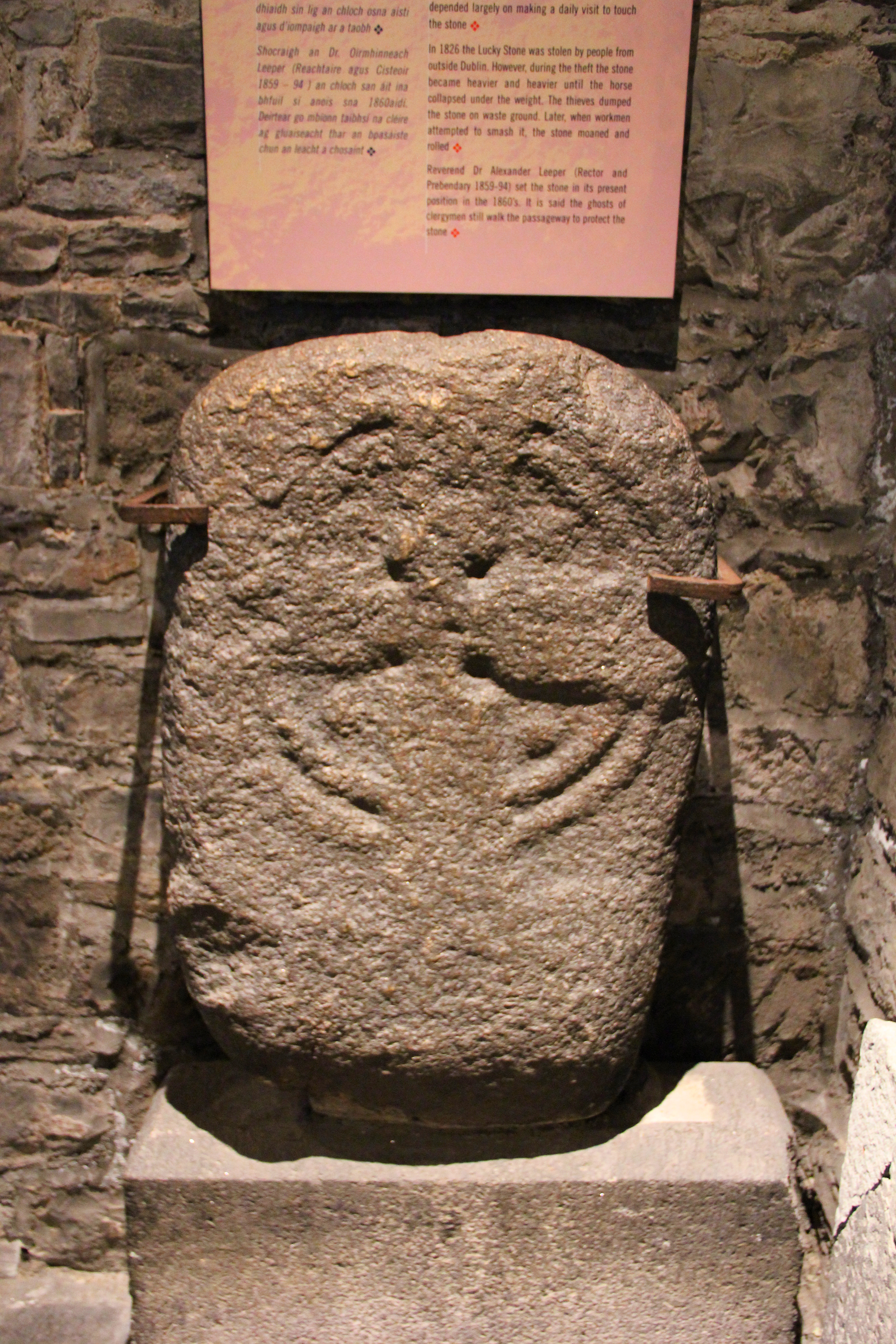 The Lucky Stone on display in the tower of the anglican St. Audoen's Church, Cornmarket, in Dublin, Ireland.